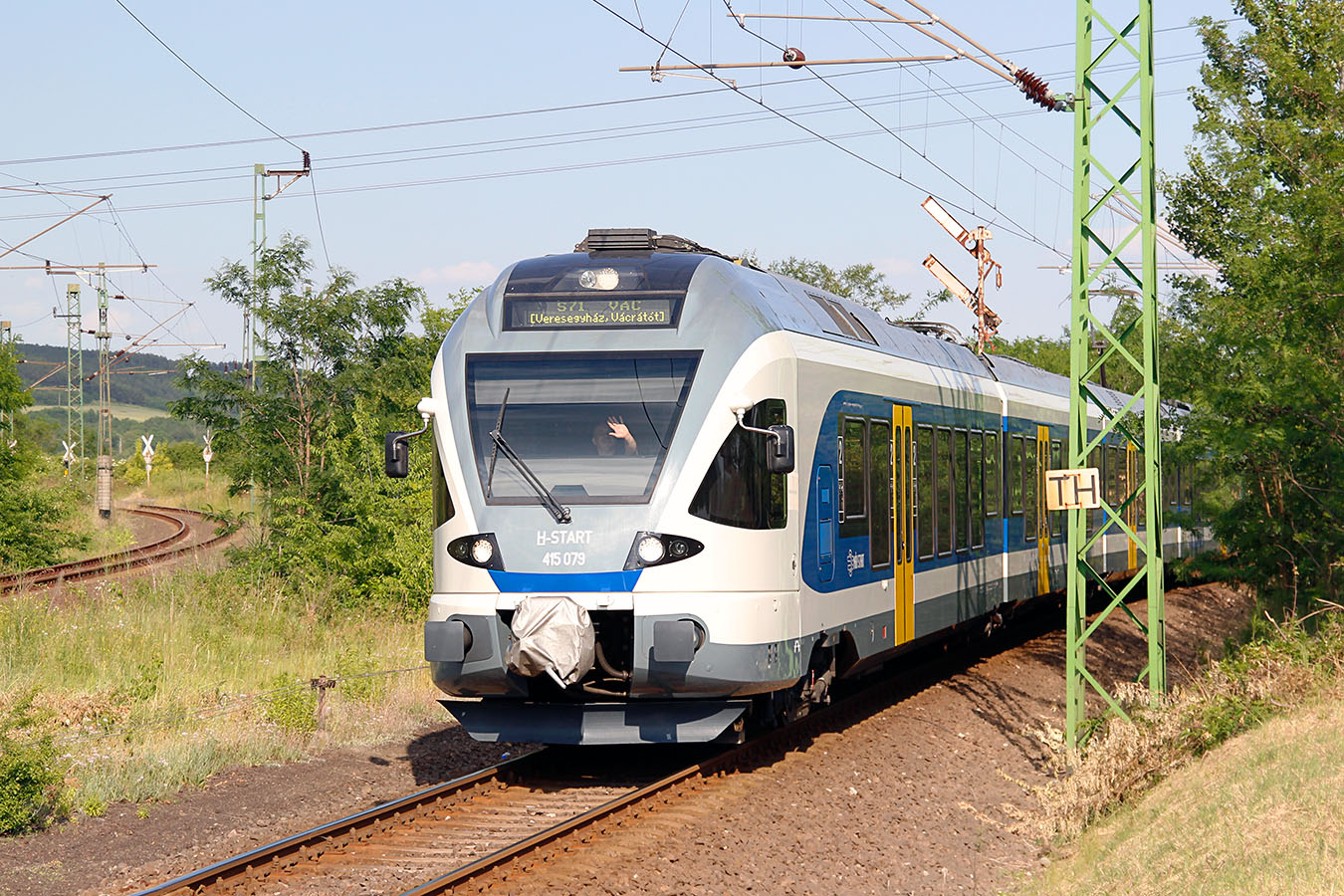 Note the semaphore home signal in the background.